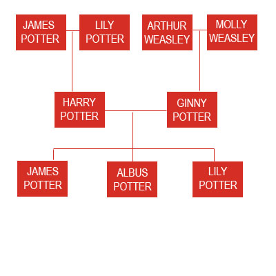 Harry Potter Family